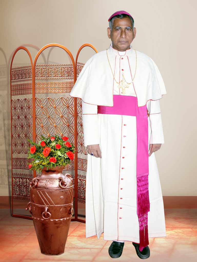 Bishop Antony Anandarayar, the current Archbishop of Roman Catholic Archdiocese of Pondicherry and Cuddalore